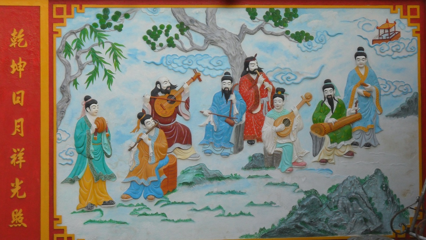 Chinese traditional music. Decoration on a wall of a Chinese Temple (Chua On Lang Pagoda?, Cholon, Ho Chi Minh City), Viet Nam